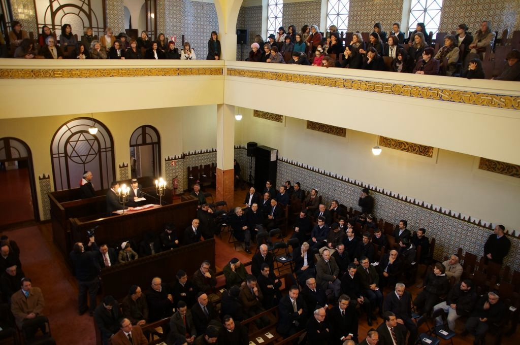 Sinagoga Kadoorie